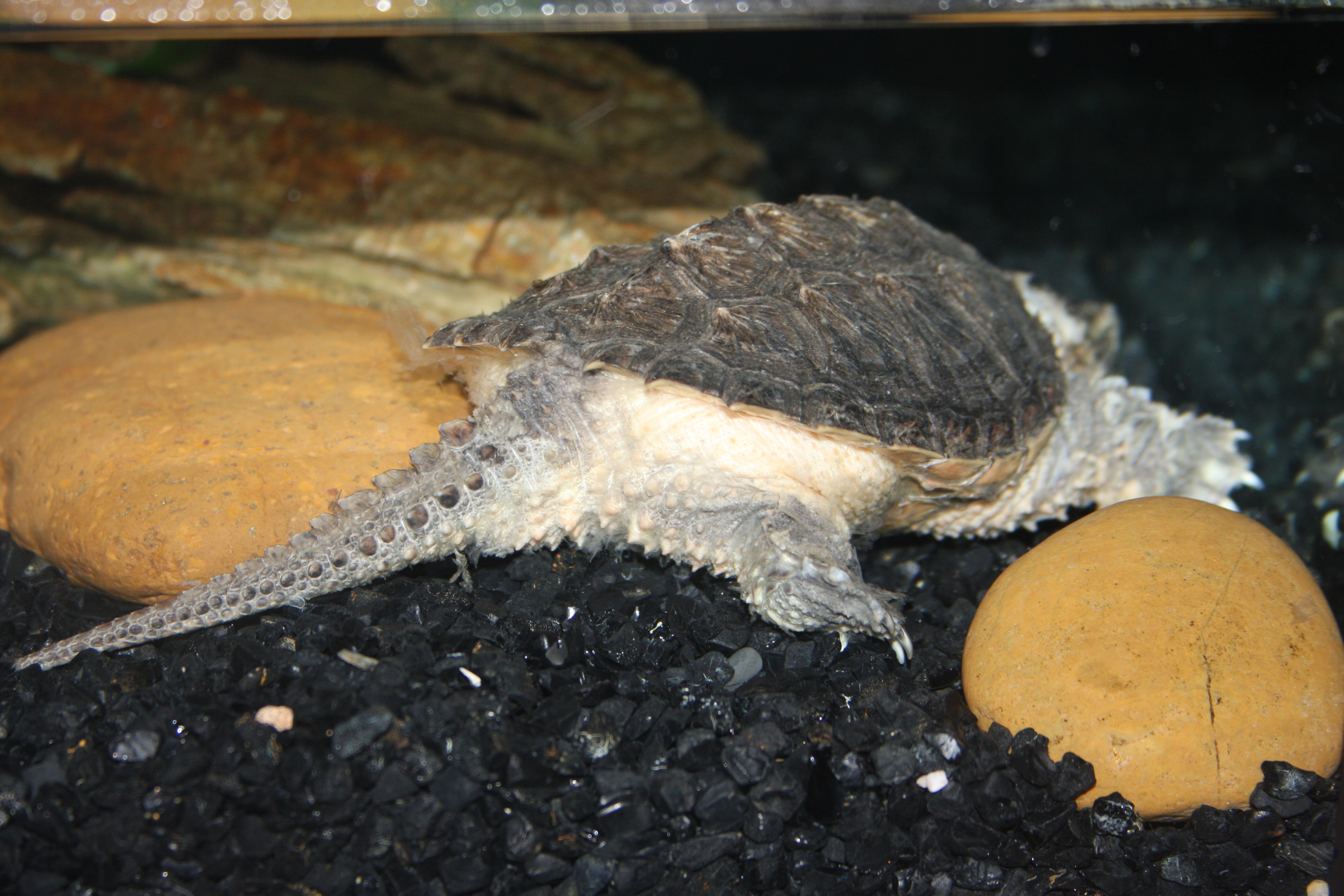 Chelydra serpentina in Siam centre, Bangkok